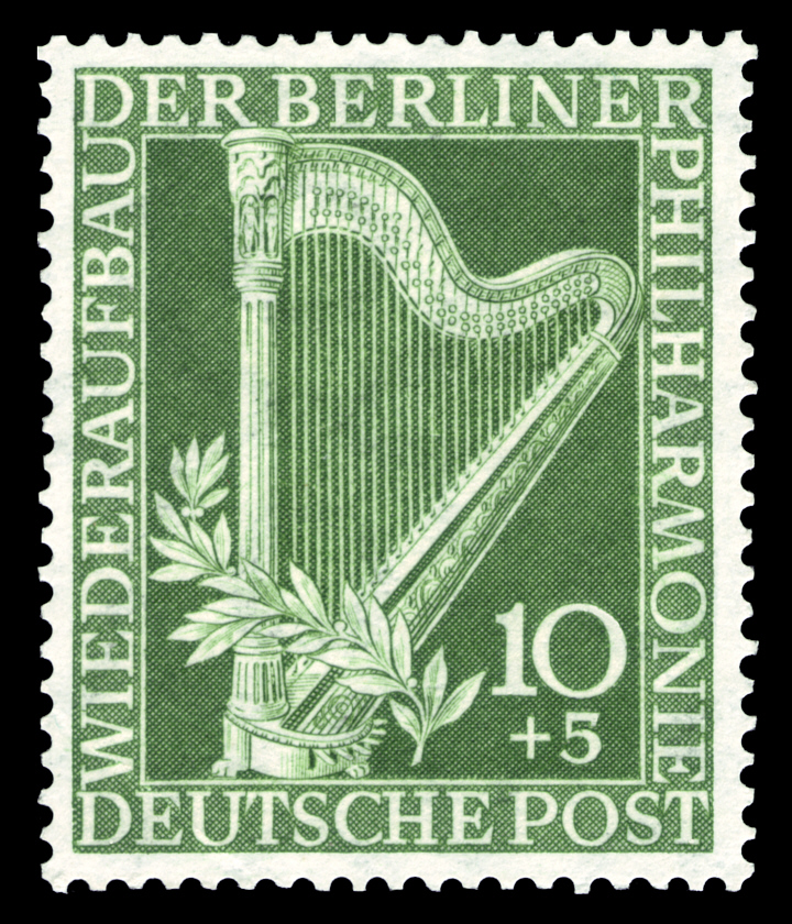 Zuschlagmarke für den Wiederaufbau der Berliner Philharmonie